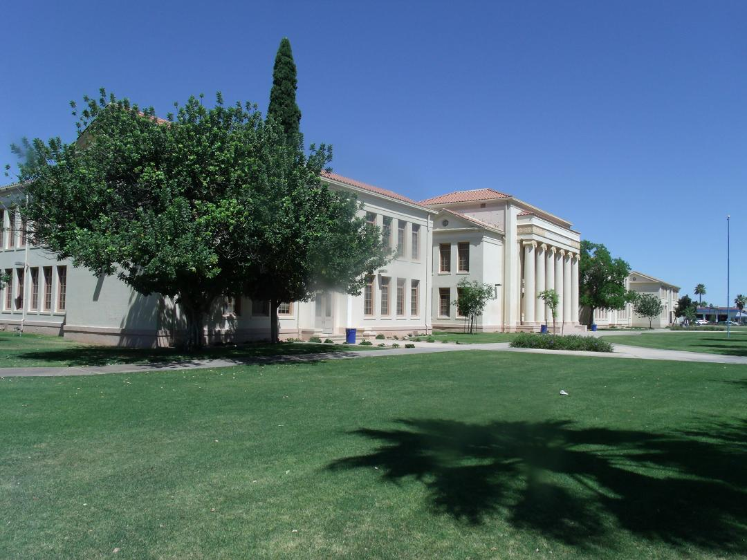 Chandler High School built in 1900 and located in 350 N. Arizona Ave. in Chandler, Arizona. The building is listed in the National Register of Historic Places. Reference #07000836